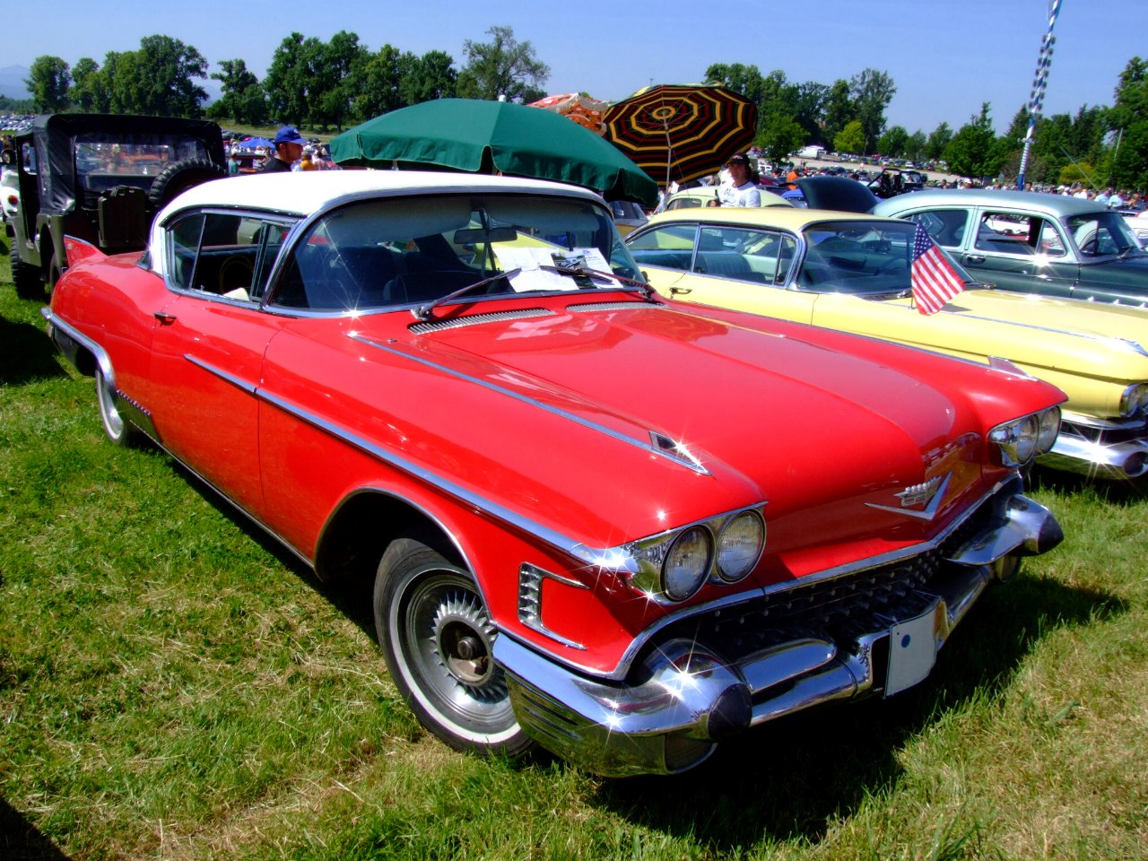 1958 Cadillac Eldorado Seville.